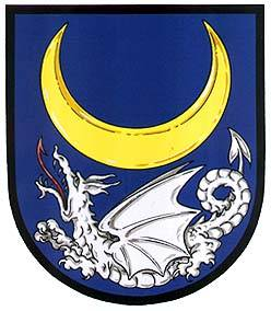 Municipal coat of arms of Brozany nad Ohří market town, Litoměřice District, Czech Republic.